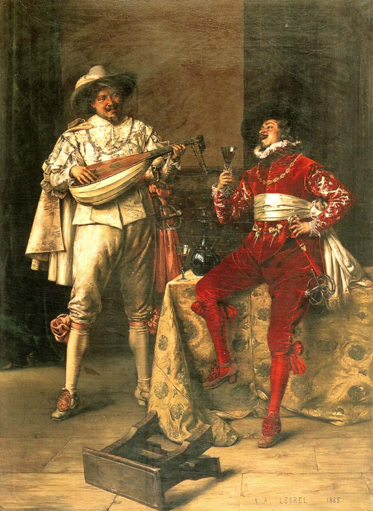 Gentlemen's Pleasures